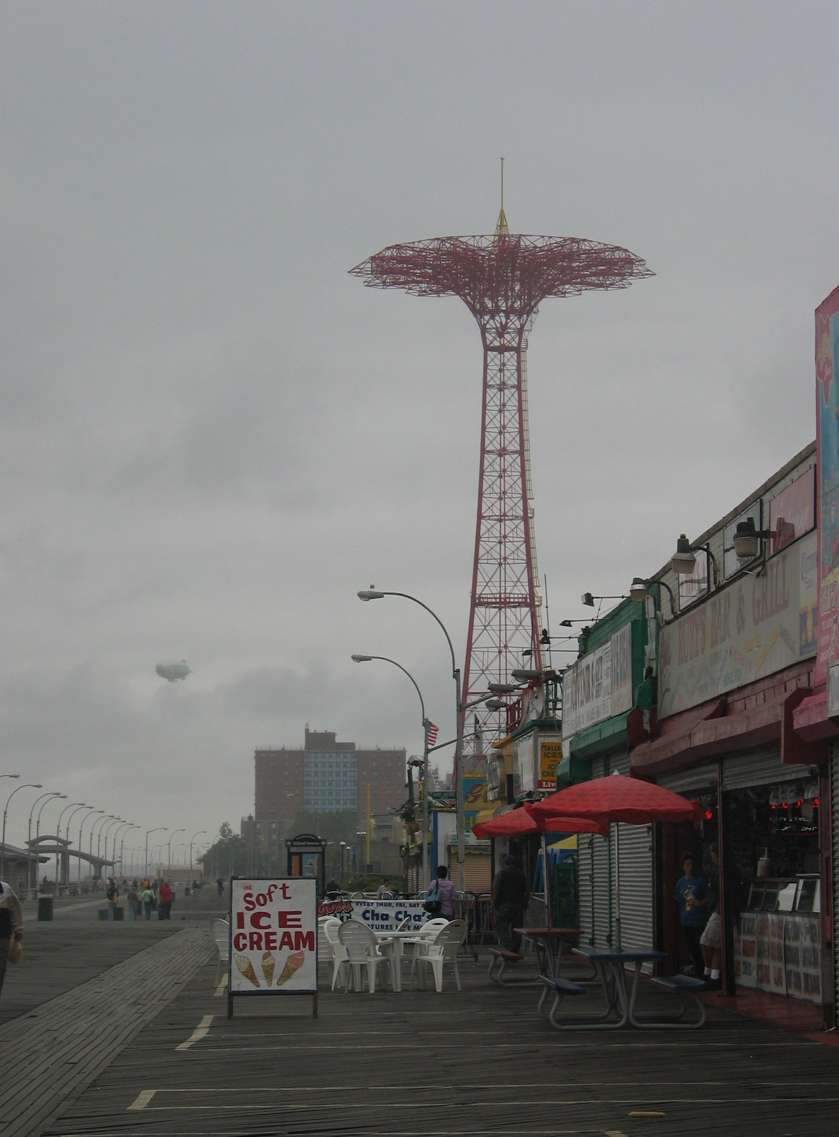 Coney Island Boardwalk with parachute jump tower in the background.